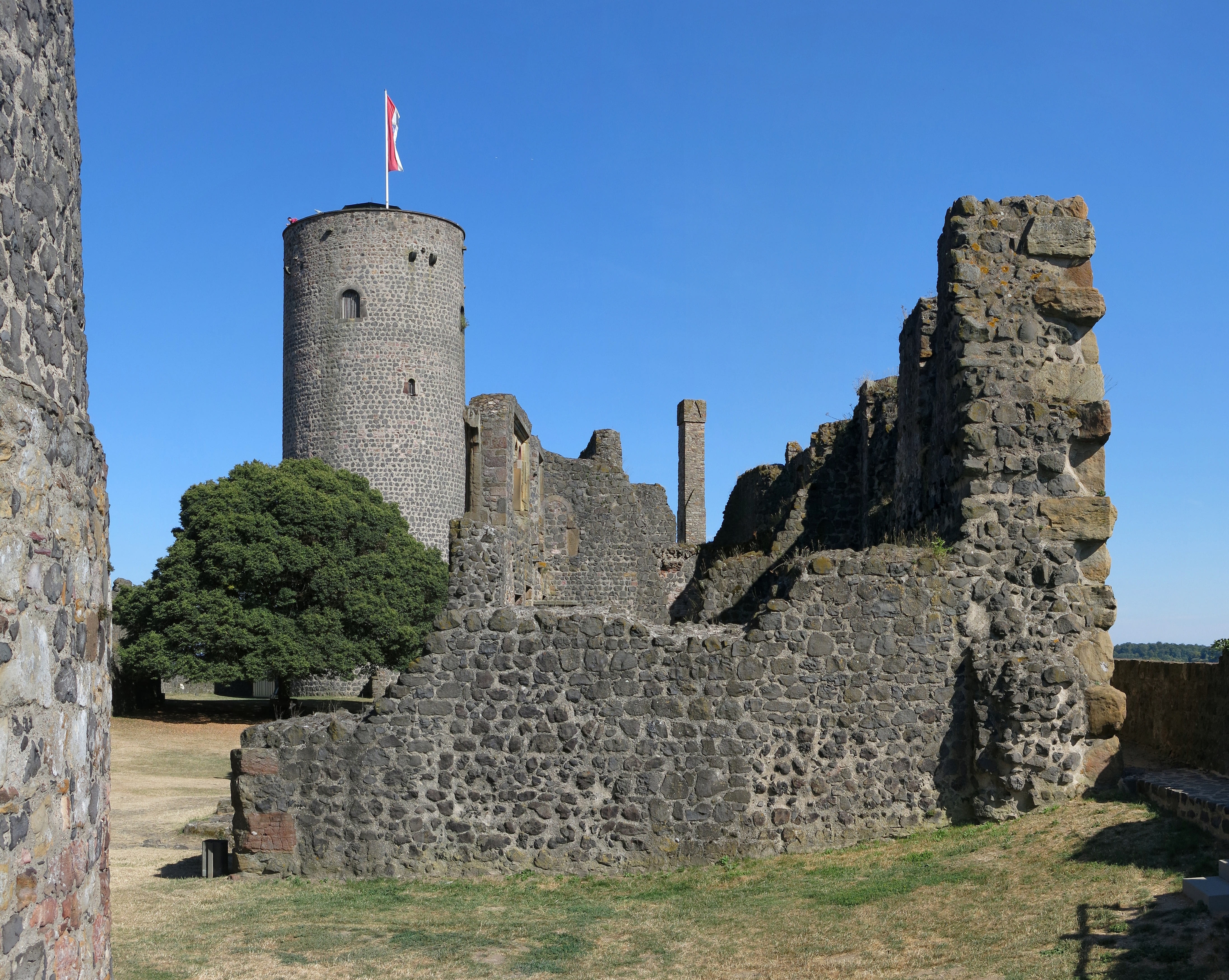 On Münzenberg Castle in Hesse.